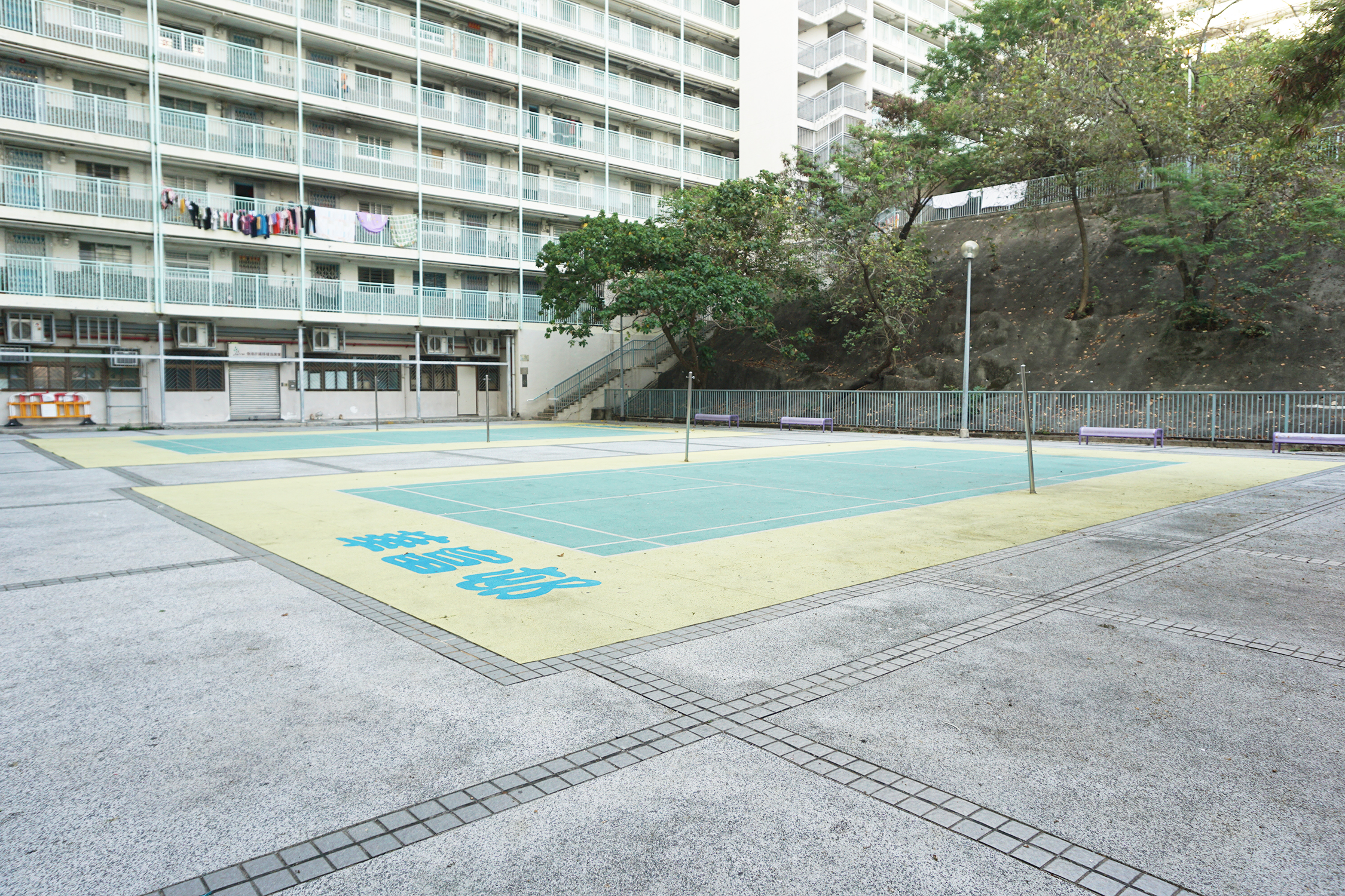 Wah Fu (I) Estate in Pok Fu Lam, Hong Kong.